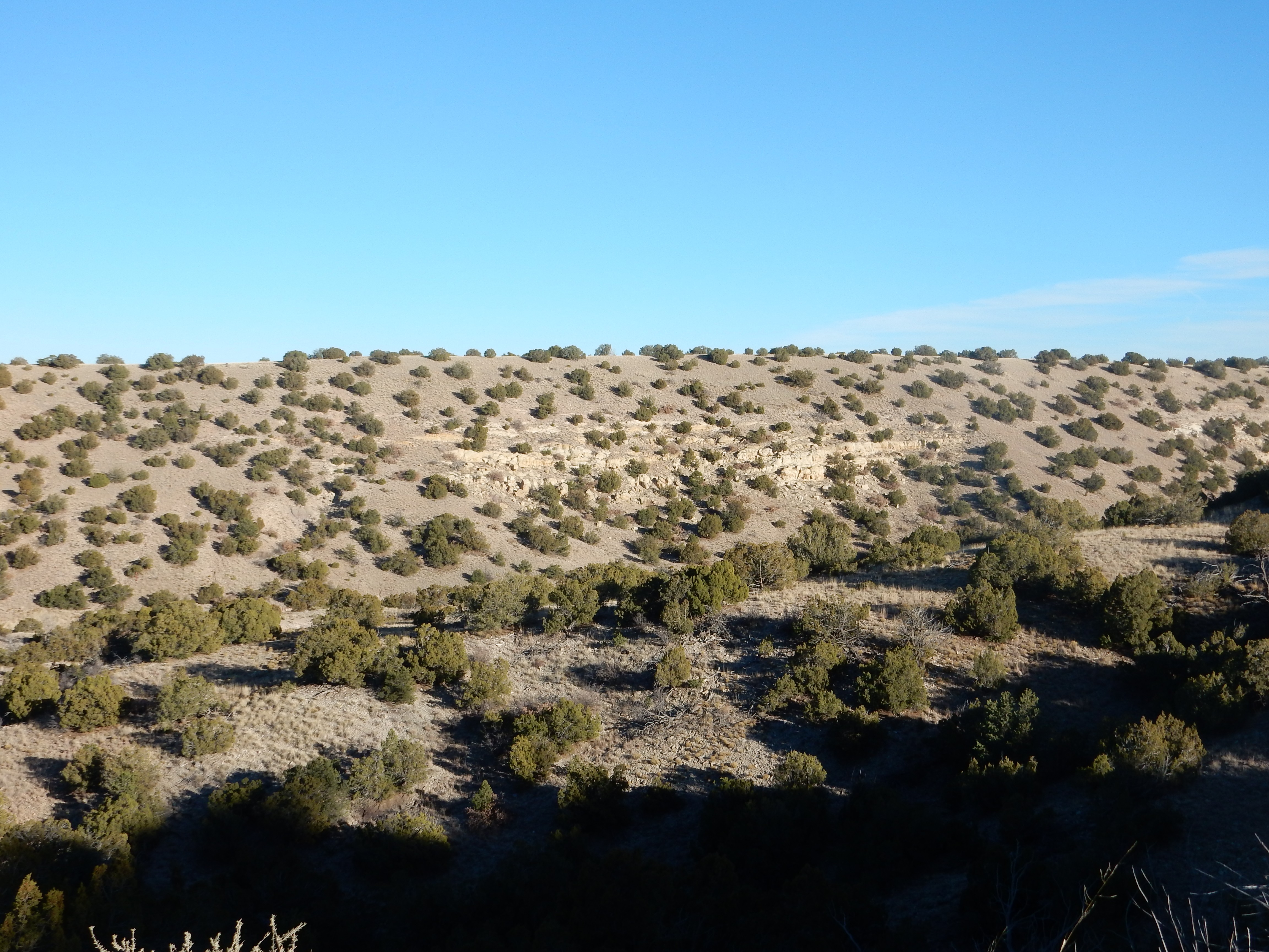 The beds exposed on the hillside are part of the Eocene Diamond Tail Formation. The location is south of Los Cerrillos, New Mexico.